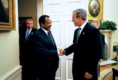 On the eve of the war in Iraq, President Bush meets with President Paul Biya of Cameroon for a bilateral meeting and dinner at the White House Thursday, March 20, 2003. The President congratulated President Biya on Cameroon's successful record of reform, and encouraged him to continue to tackle sensitive issues, such as governance and privatization. President Bush praised Biya for his leadership to resolve the Bakassi dispute peacefully. President Biya has been supportive of U.S. effort to combat international terrorism.